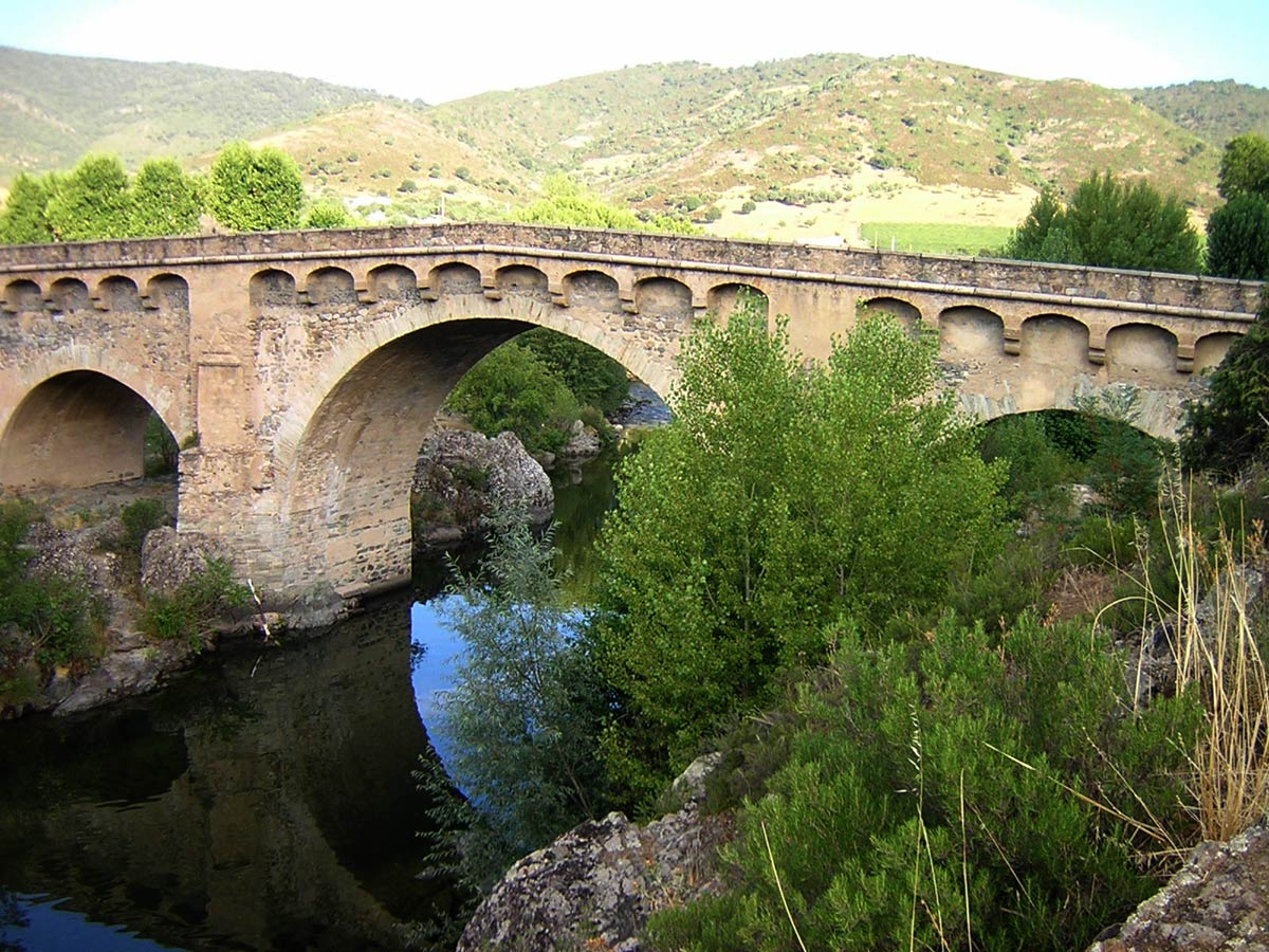 Genoese bridge over the Tavignano river, near Altiani, Corsica.